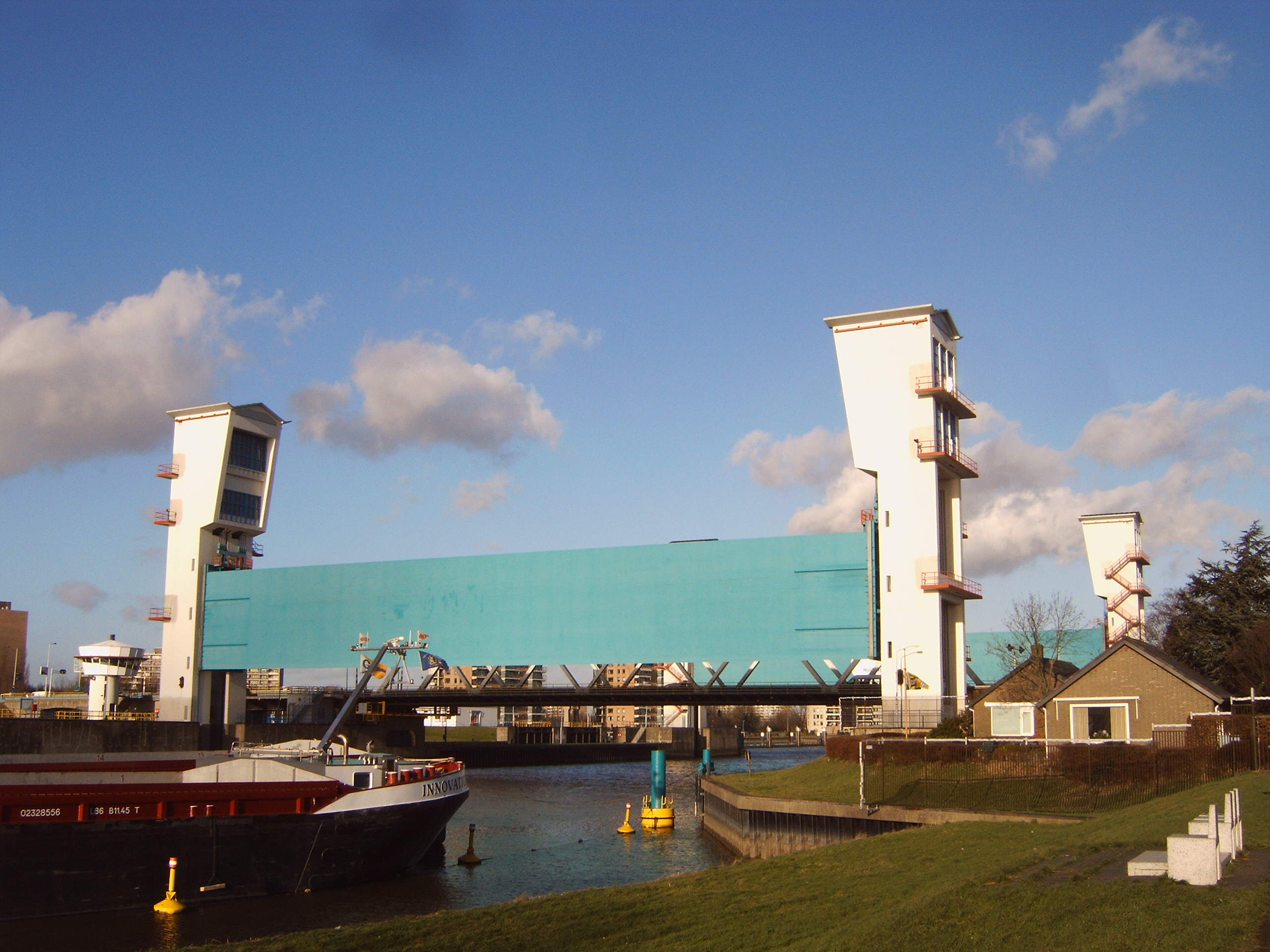 Flood barrier in the Hollandse IJssel river at Krimpen aan de IJssel, near Rotterdam. Built in 1958, and now (after the completion of the Maeslantkering barrier) acting as a back-up. Its number in the list of 89 proposed monuments is: 2013-52 For more information see Dutch WIkipedia: 89 topmonumenten uit de periode 1959-1965